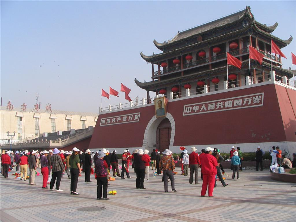 Yinchuan Replica Of Tainanmen Square (China, Ningxia Province). Self Taken photo